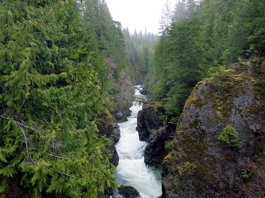 View of Lower Harris Creek and Canyon from Pacific Marine Road.